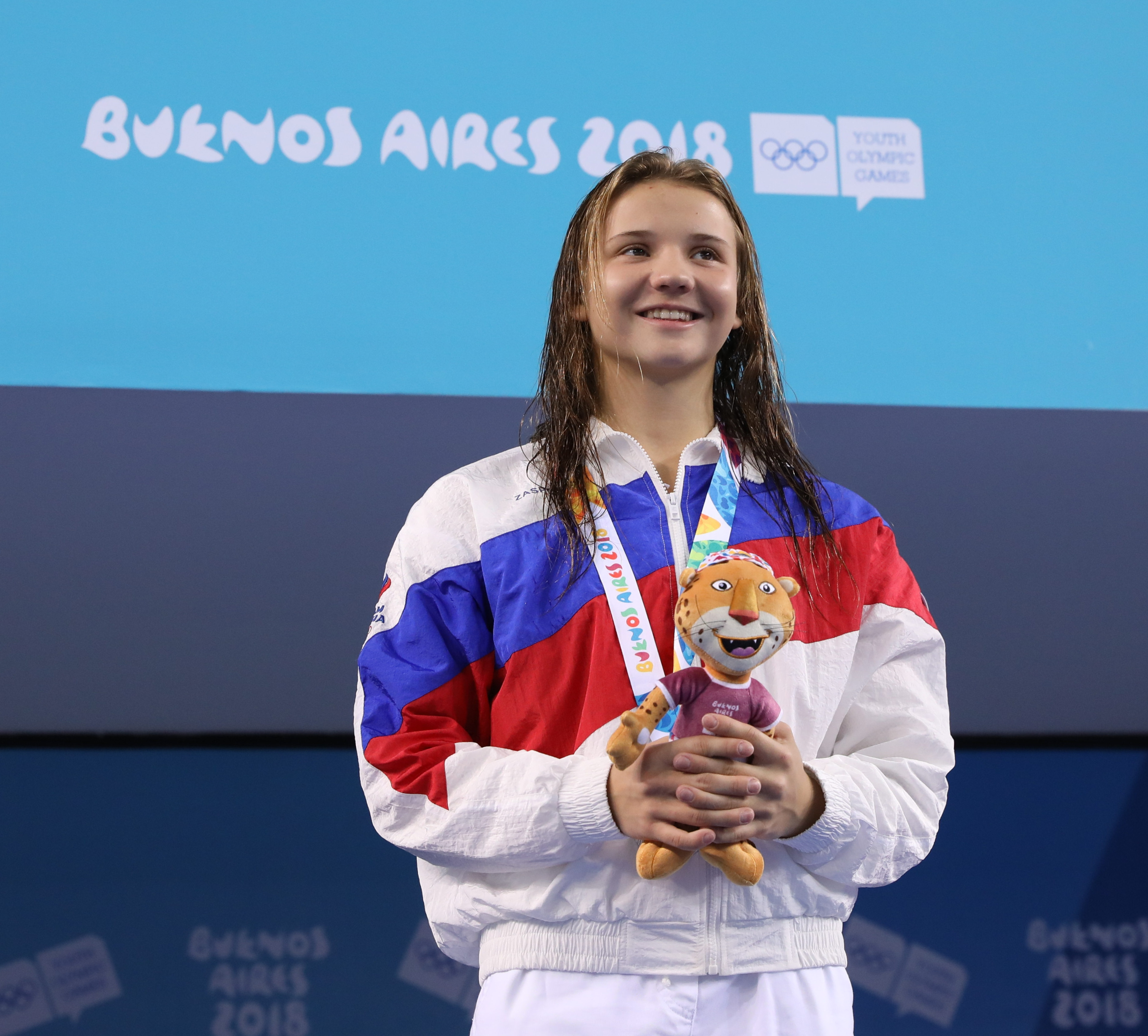 Diving, Girls 3 m springboard: Victory ceremony